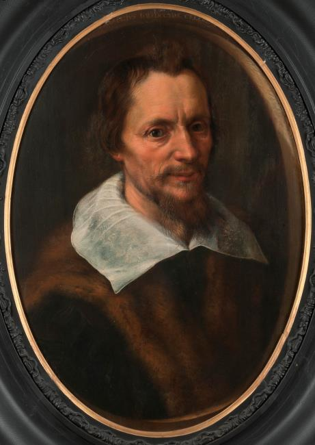 Portrait of Friedrich Lindenbrog